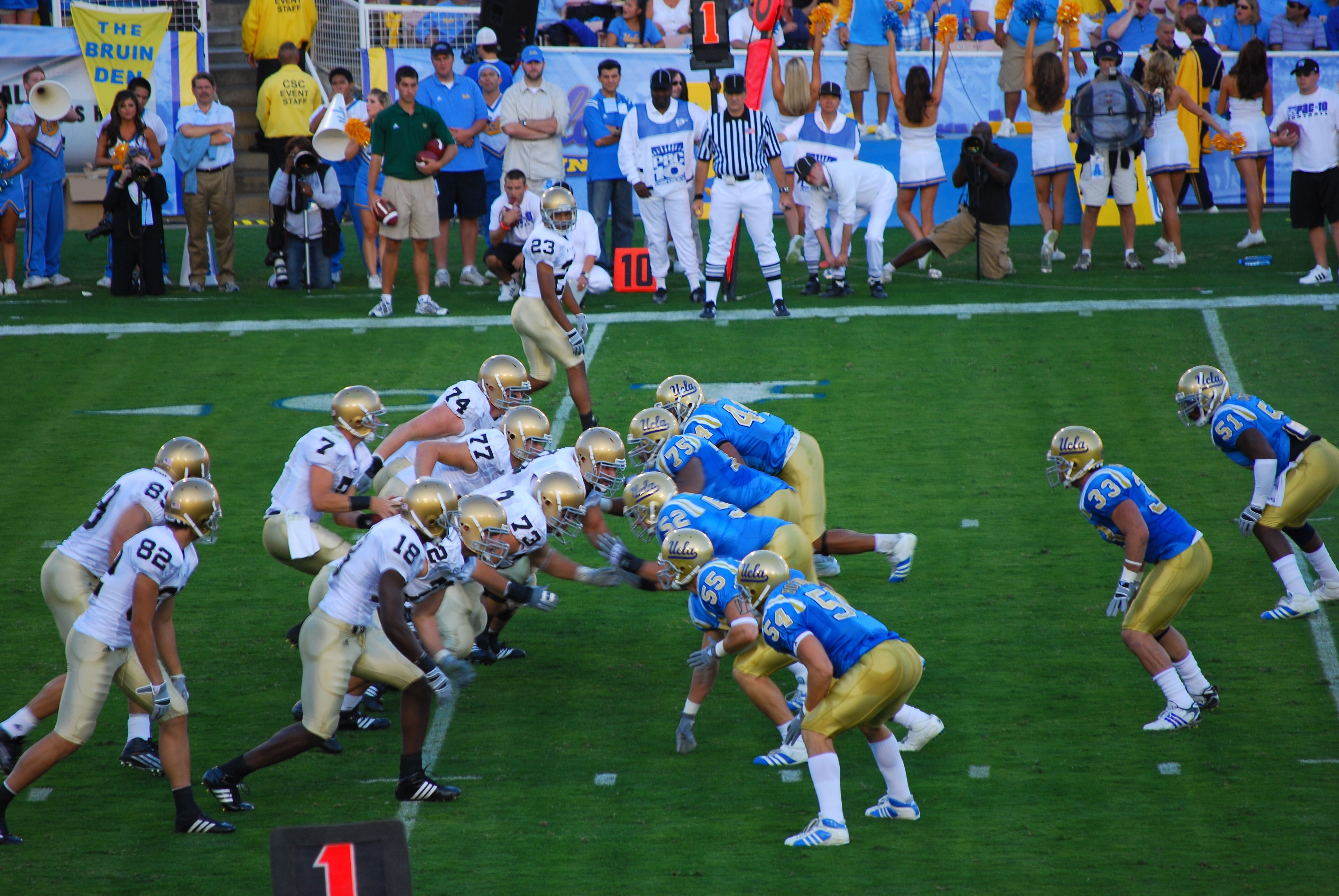 Notre Dame and UCLA at the line of scrimmage in their 2007 meeting. After starting their season with five lopsided non-victories, the Fighting Irish traveled to the Rose Bowl and defeated the UCLA Bruins.